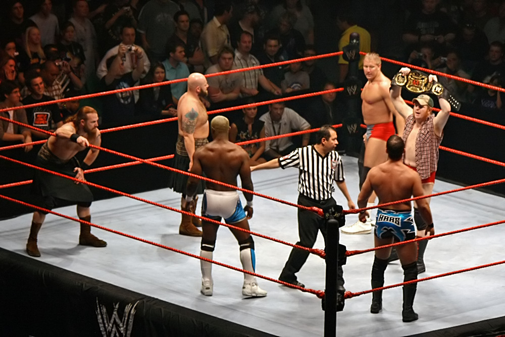 Lance Cade and Trevor Murdoch (Trevor Rhodes) show off the WWE World Tag Team belts to their opponents prior to the match. Taken during the WWE Raw - Survivor Series Tour, at Rod Laver Arena, Melbourne Park, Melbourne, Australia. This was a triple threat match for the tag titles, with Cade and Murdoch as champions against The Highlanders and The World's Greatest Tag Team (Shelton Benjamin and Charlie Haas). Cade and Murdoch won the match when Cade pinned Robbie McAllister from the Highlanders following a Benjamin superplex on Robbie.